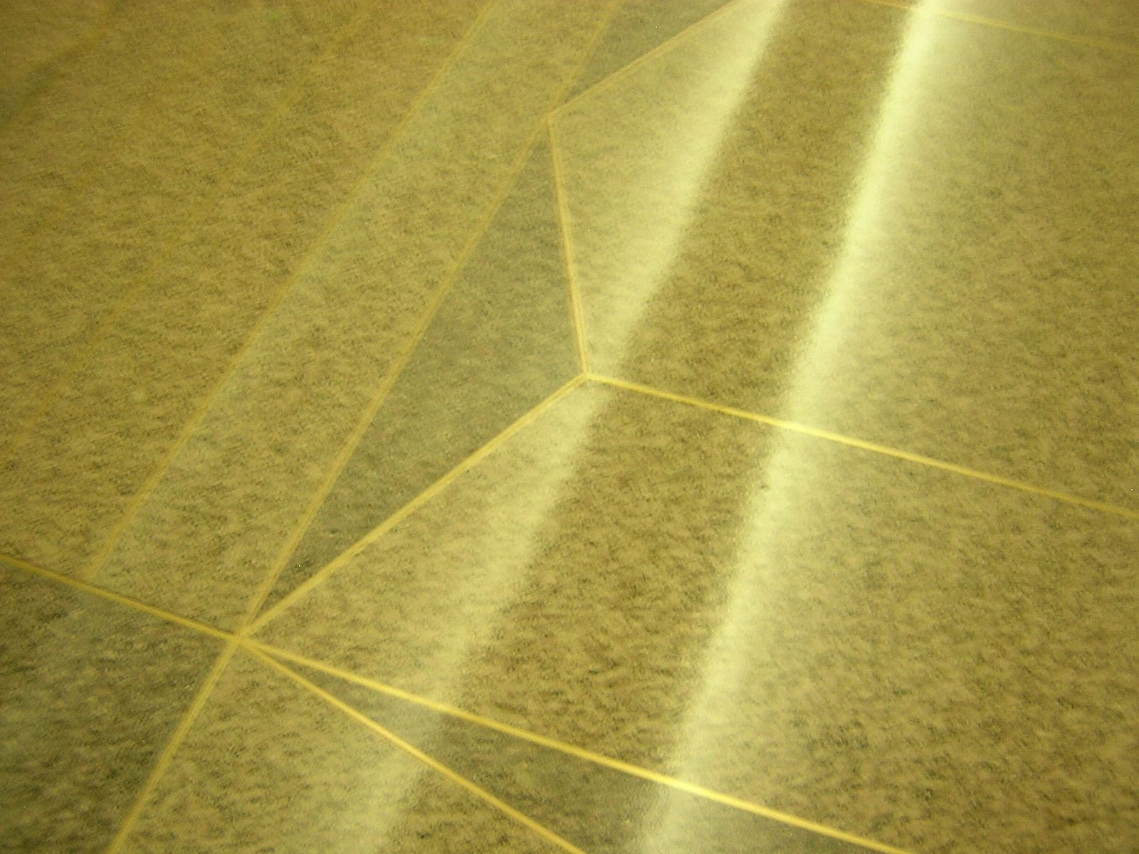 Marble floor at the Minneapolis Post Office lobby, Minneapolis, Minnesota